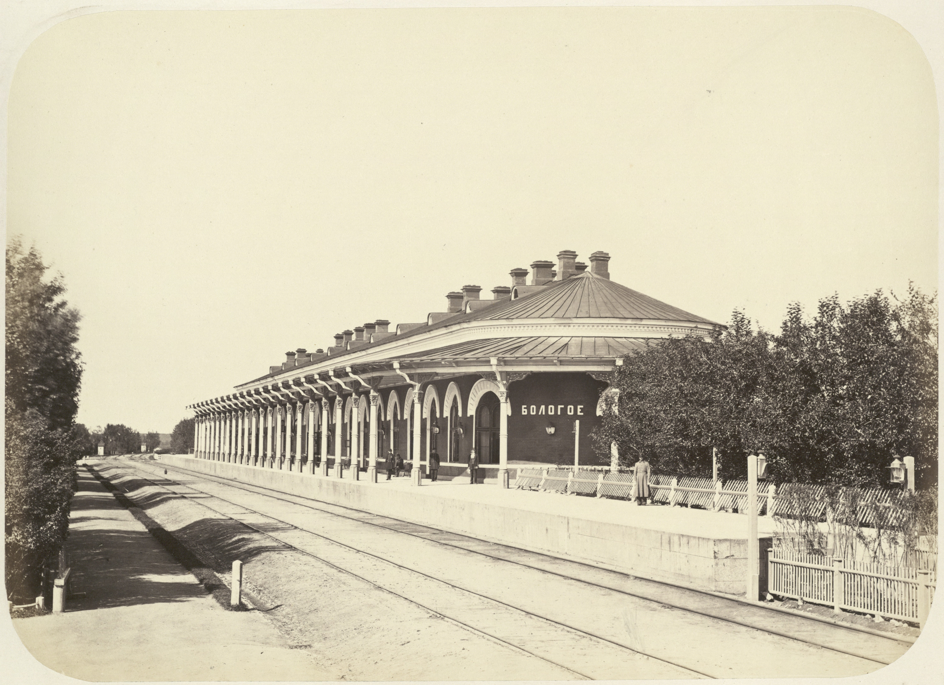 Railway station Bologoje (“Bologoje-Moskovskoje”), first class waiting room